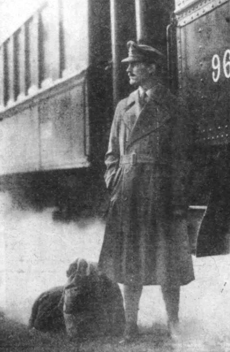 WWITrenchcoat.jpeg